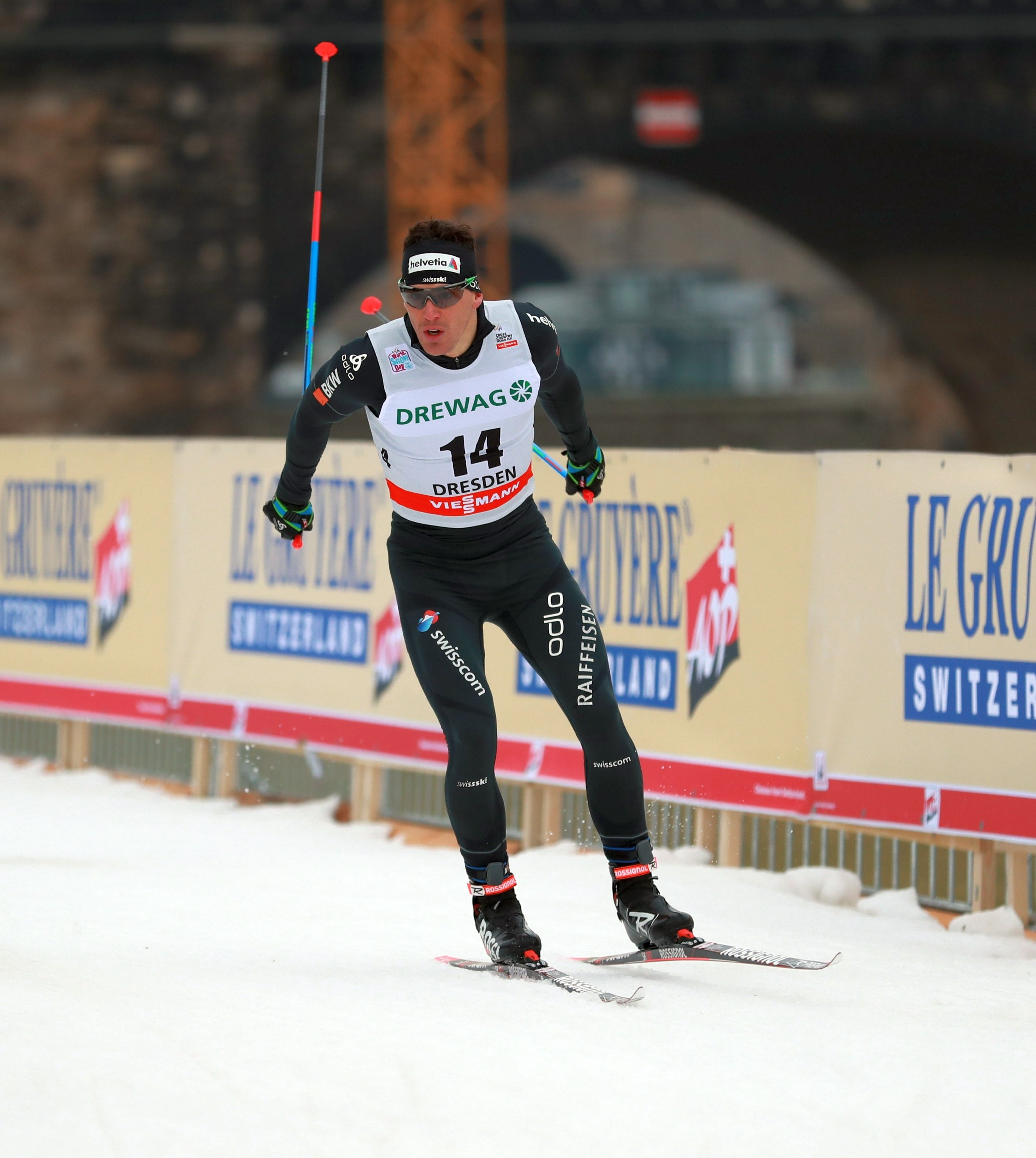 Mens Prolog at the FIS Cross-Country World Cup Dresden 2018: Jovian Hediger